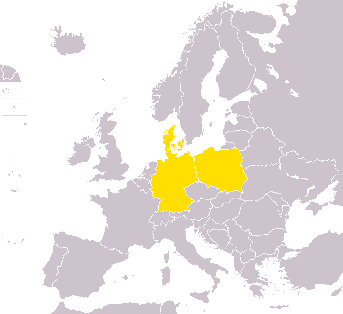 Yellow color shows what countries Netto operates in.